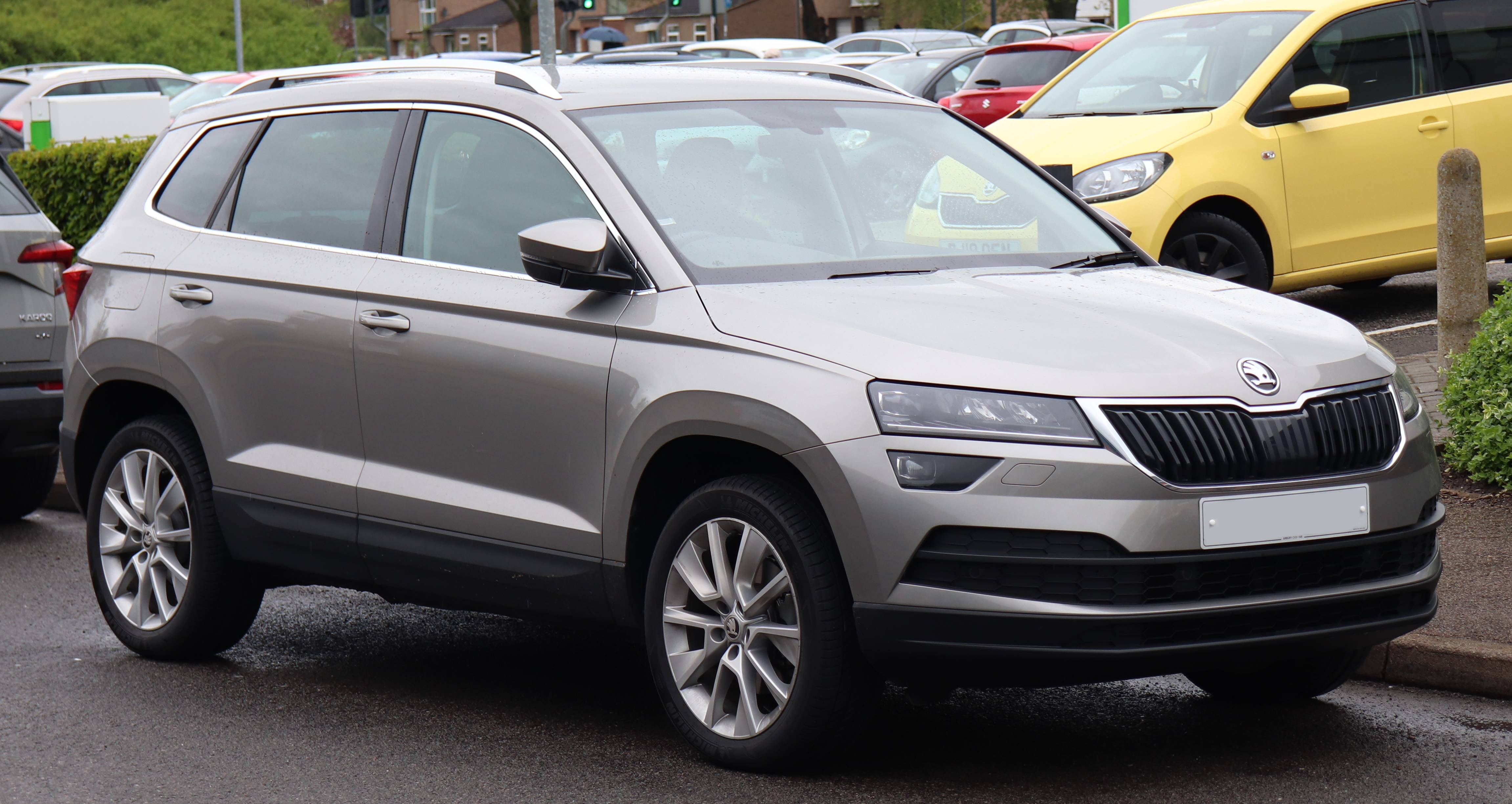 2018 Skoda Karoq SE L TDi S-A 1.6 Front Taken in Sydnam, Leamington Spa